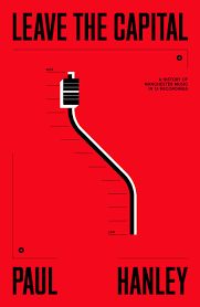 This is the book cover for 'Leave The capital' by Paul Hanley